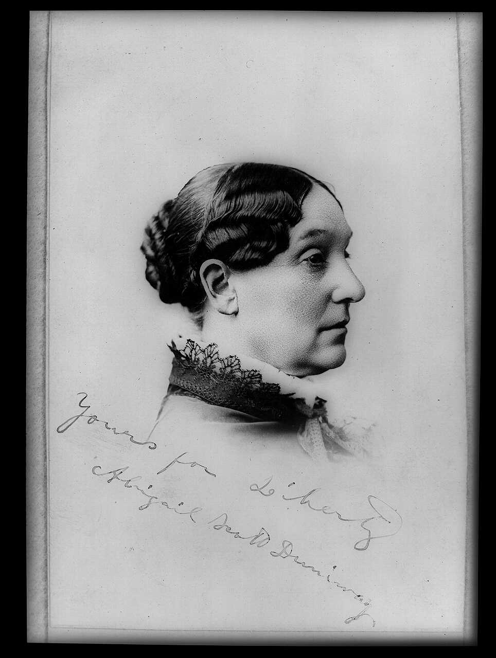 Title: Abigail Scott Duniway, bust portrait, facing right Abstract/medium: 1 photographic print on cabinet card mount.